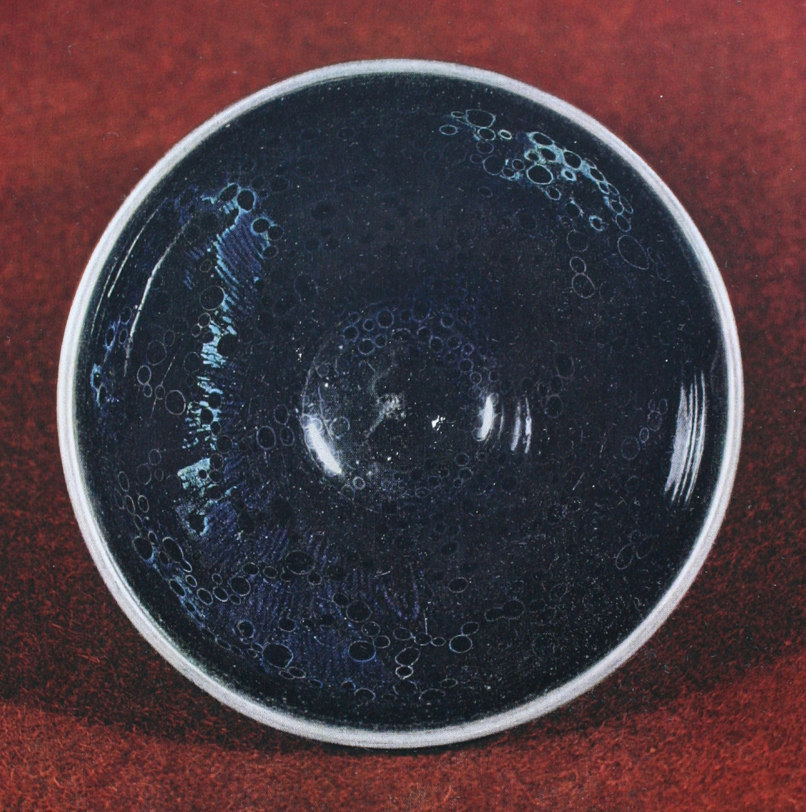 Yohen Tenmoku Tea Bowl, tenmoku glaze stoneware; blue and green spot marks; height: 6.8 cm (2.7 in), mouth diameter: 12.3 cm (4.8 in), base diameter: 3.8 cm (1.5 in), southern Song dynasty, 13th century, China. Formerly in Mito Tokugawa Family in Edo Period, now stored in Fujita Museum, Osaka, Japan.